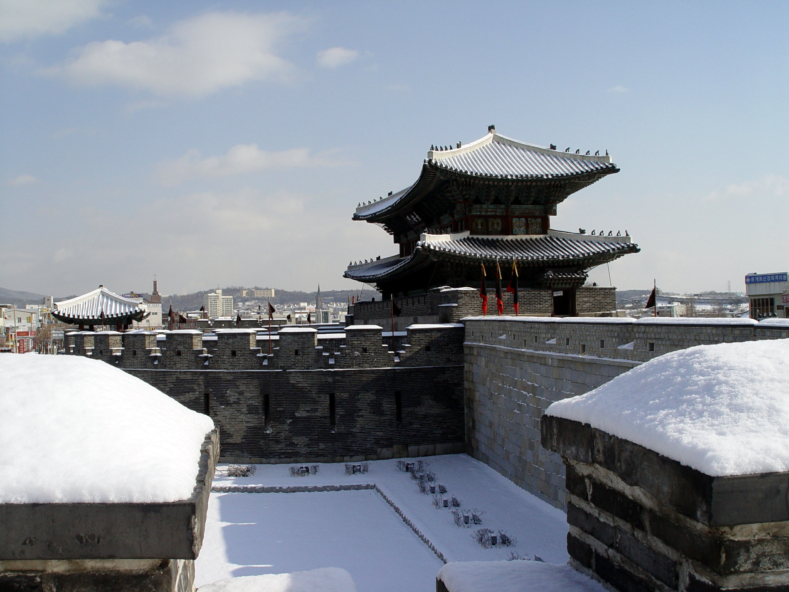 Janganmun seen from Bukseo Jeokdae, Hwaseong Fortress, Suwon, South Korea